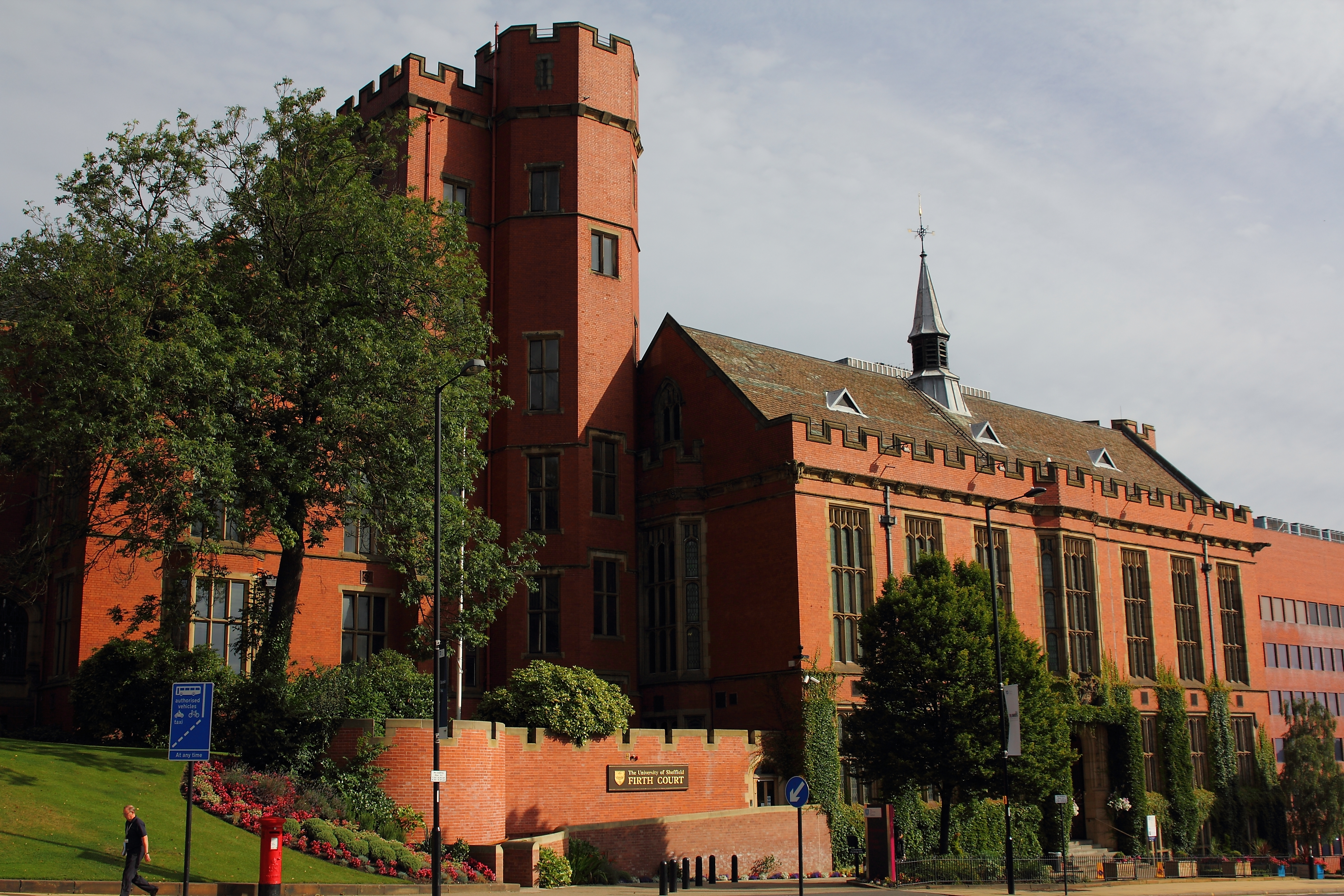 Firthcourt2012